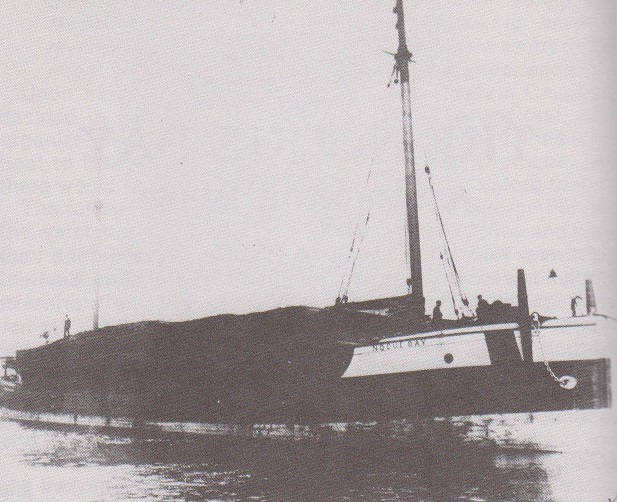 A photo of the ship Noquebay, which sank in Lake Superior in 1905.